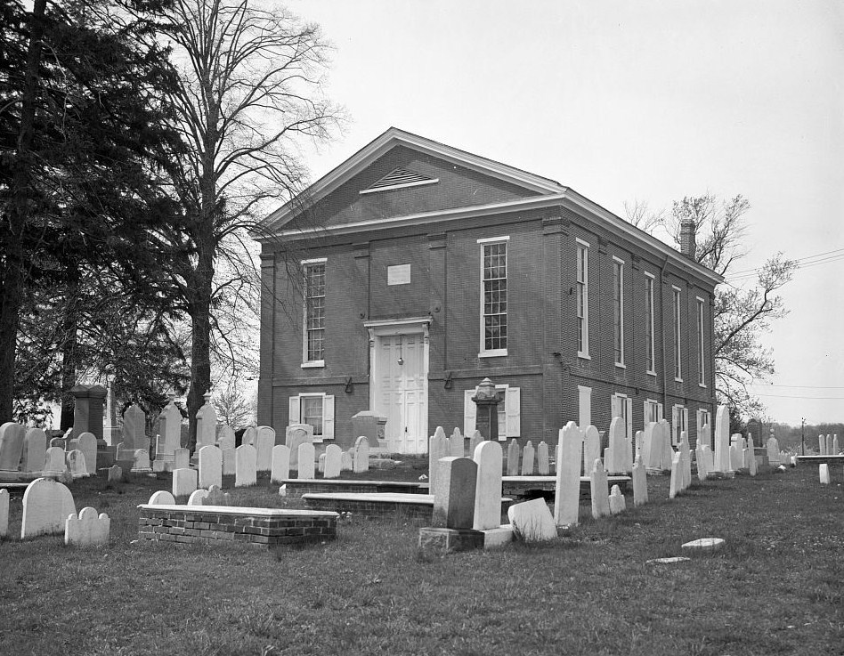 White Clay Creek Presbyterian Church, Robert Kirkwood Highway & Polly Drummond Hill Road, Newark vicinity (New Castle, Delaware) cropped This file comes from the Historic American Buildings Survey (HABS), Historic American Engineering Record (HAER) or Historic American Landscapes Survey (HALS). These are programs of the National Park Service established for the purpose of documenting historic places. Records consist of measured drawings, archival photographs, and written reports. When reusing please credit: Library of Congress, Prints & Photographs Division, DEL,2-NEWARK.V,1-1 This tag does not indicate the copyright status of the attached work. A normal copyright tag is still required. See Commons:Licensing. This work is in the public domain in the United States because it is a work prepared by an officer or employee of the United States Government as part of that person’s official duties under the terms of Title 17, Chapter 1, Section 105 of the US Code. Note: This only applies to original works of the Federal Government and not to the work of any individual U.S. state, territory, commonwealth, county, municipality, or any other subdivision. This template also does not apply to postage stamp designs published by the United States Postal Service since 1978. (See § 313.6(C)(1) of Compendium of U.S. Copyright Office Practices). It also does not apply to certain US coins; see The US Mint Terms of Use. This file has been identified as being free of known restrictions under copyright law, including all related and neighboring rights. Object location39° 41′ 55″ N, 75° 42′ 41″ W